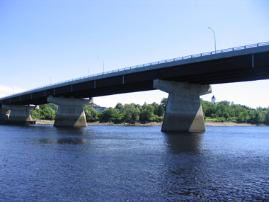 Photo of the Penobscot Bridge linking Bangor, Maine to Brewer, Maine